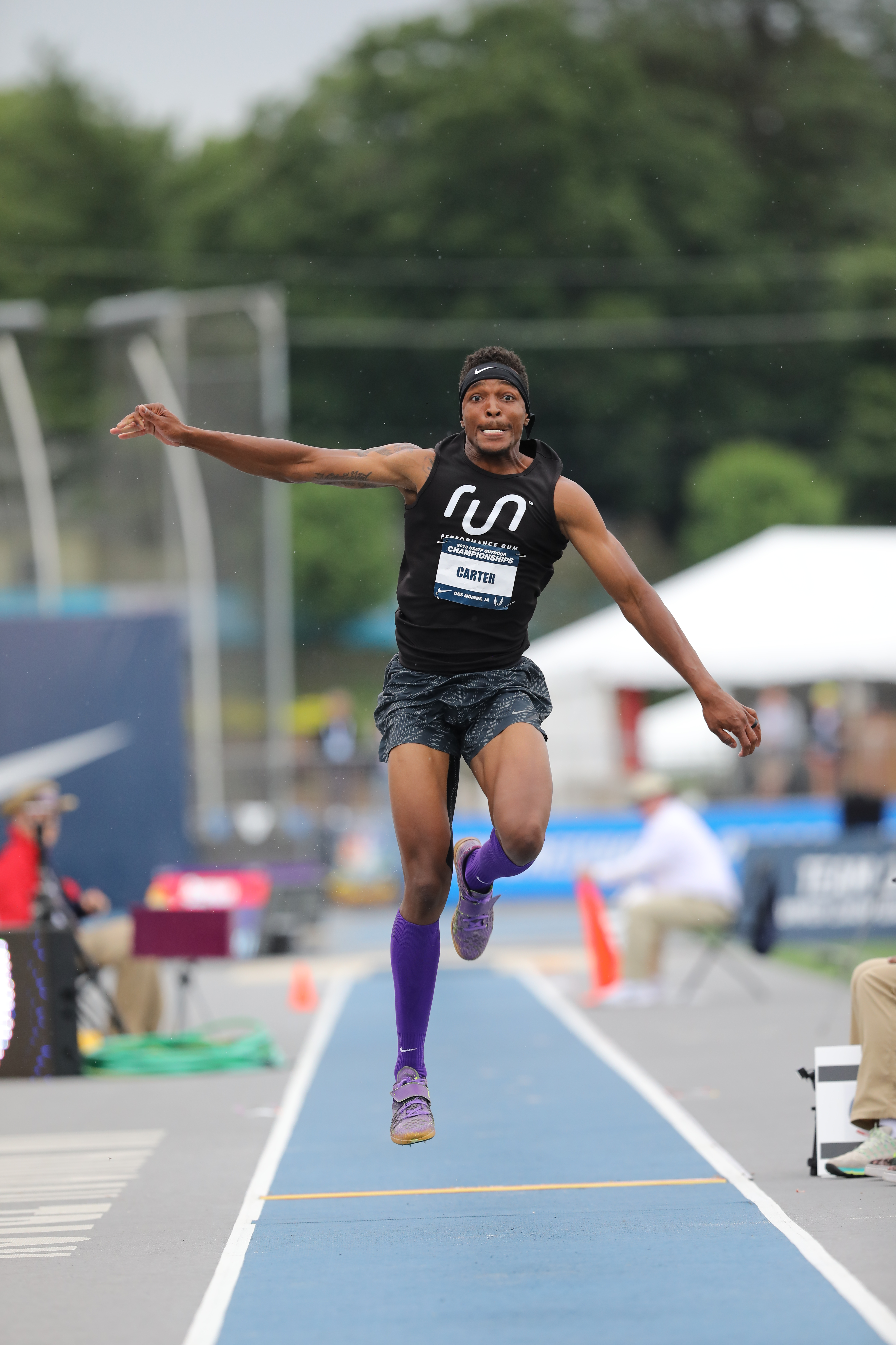 2018 USA Outdoor Track and Field Championships